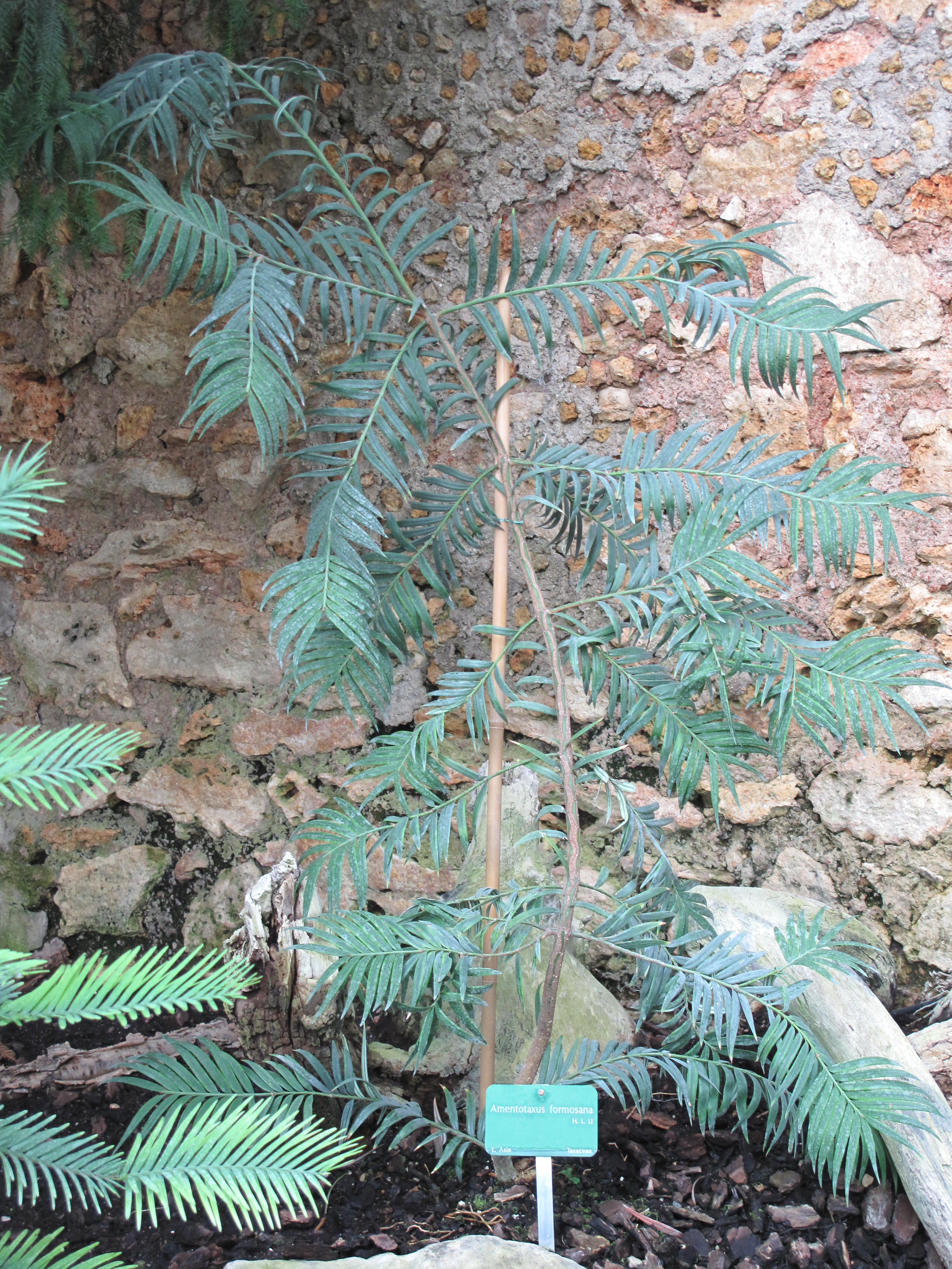 Amentotaxus formosana in the New-Caledonia greenhouse of the Jardin des Plantes in Paris.